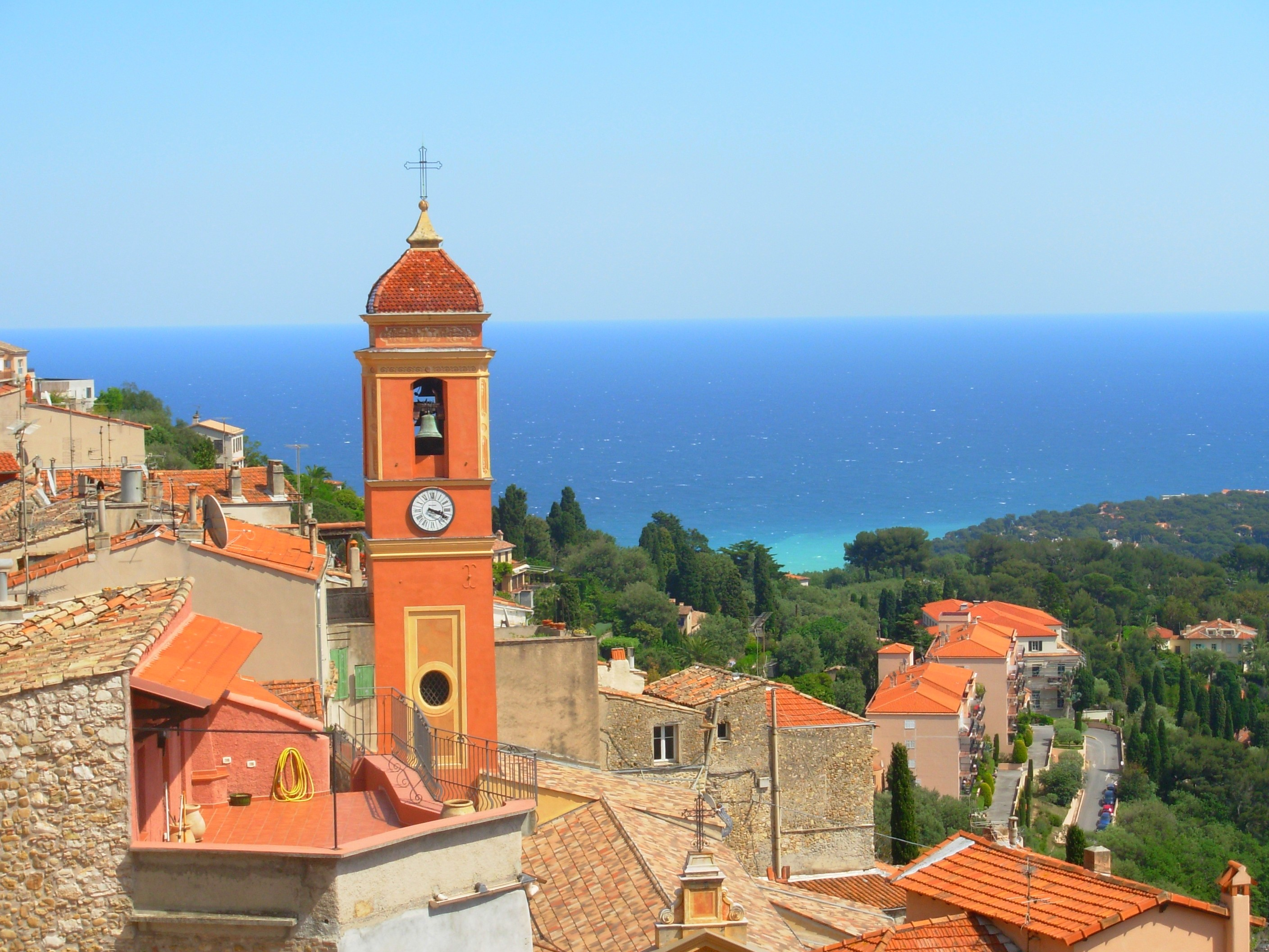 Vue Roquebrune